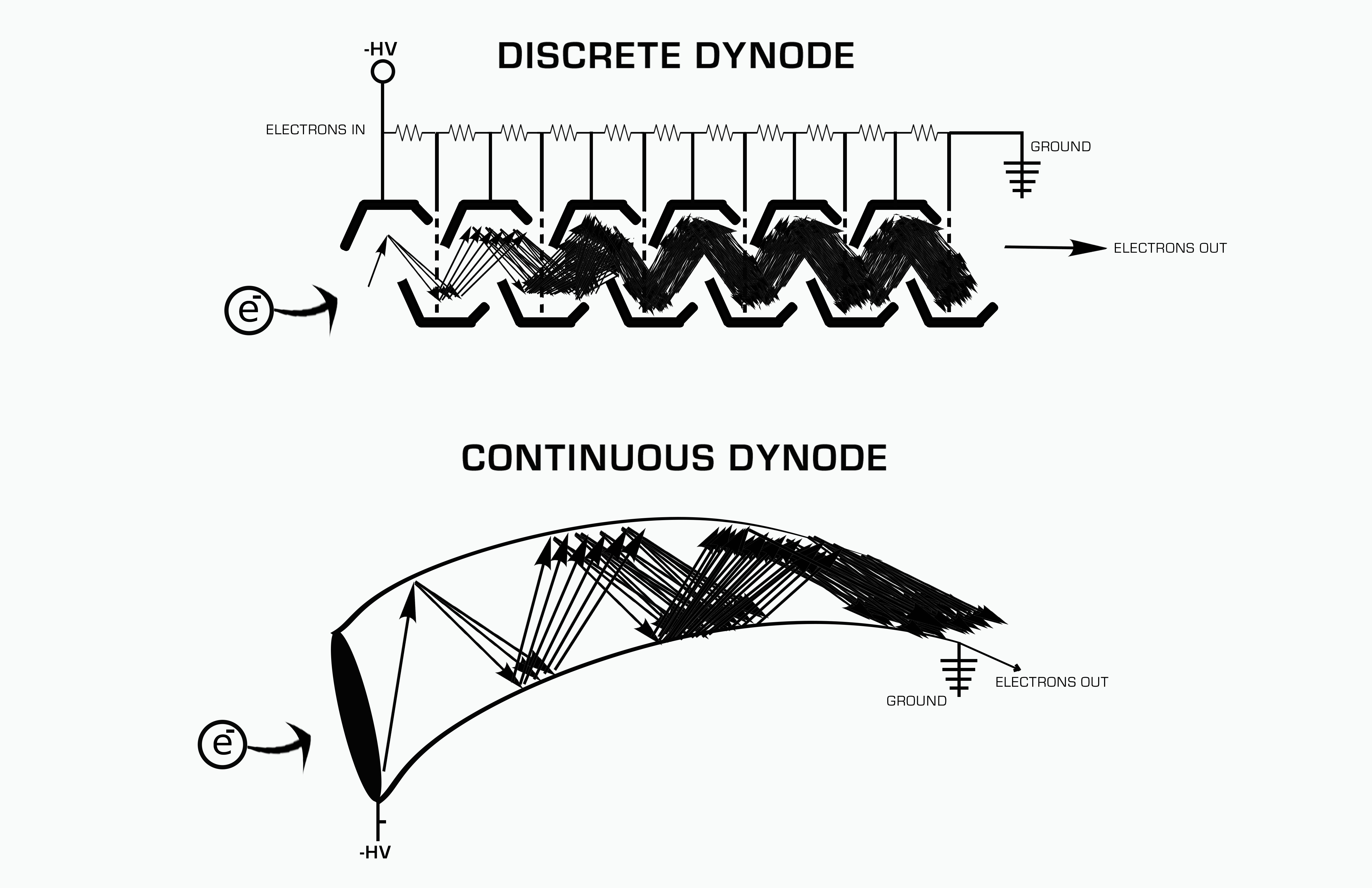 A diagram of discrete and continuous electron multiplier